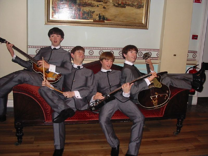 The Beatles wax dummies at Madam Tussauds.